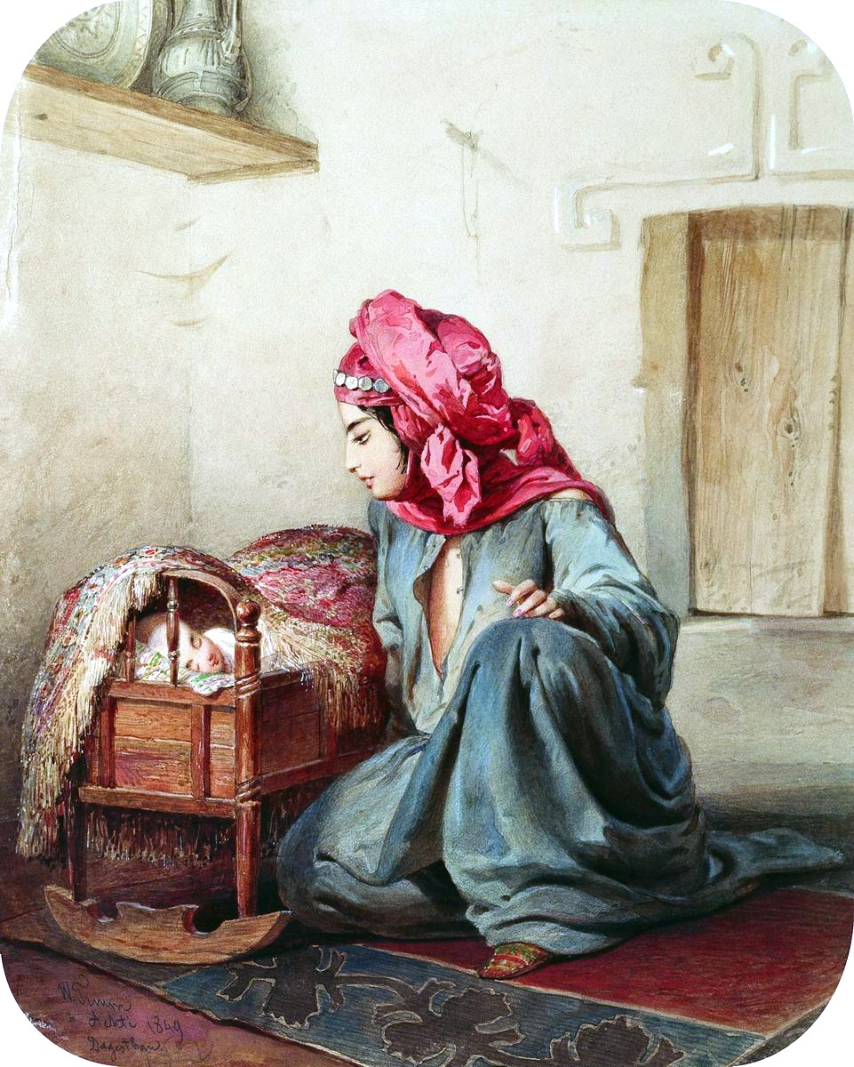 Daughter of a statesman in the village of Akhty in the middle of XIXth century. Akhty is located in Dagestan, nowadays part of Russia.